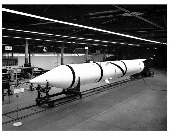 Redstone rocket photograph without description.